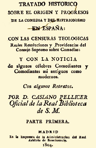 Title Page of the First Edition of Casiano Pellicer’s Tratado histórico sobre el origen y progresos de la comedia y del histrionismo en España